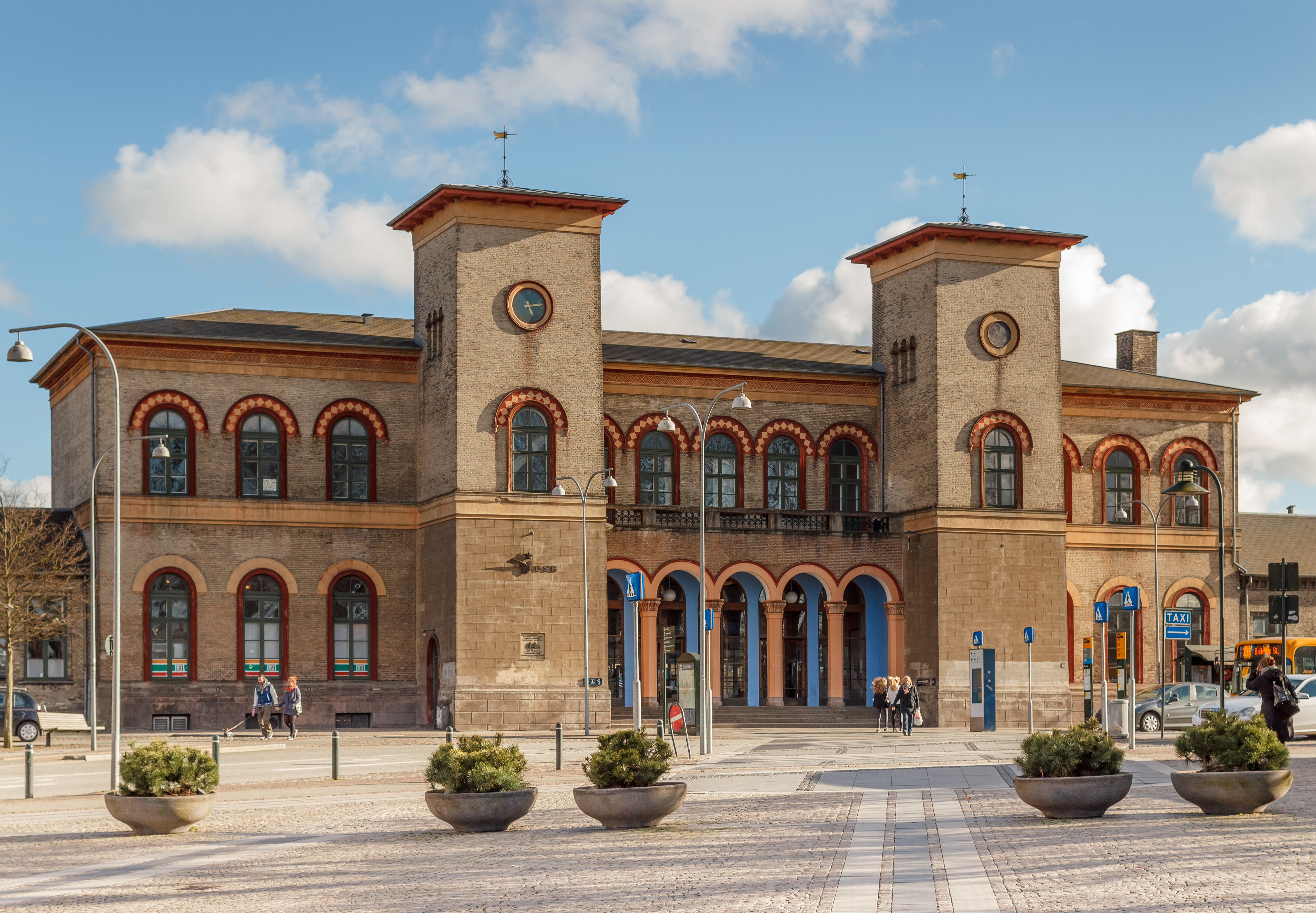 Roskilde Station, Roskilde, Denmark